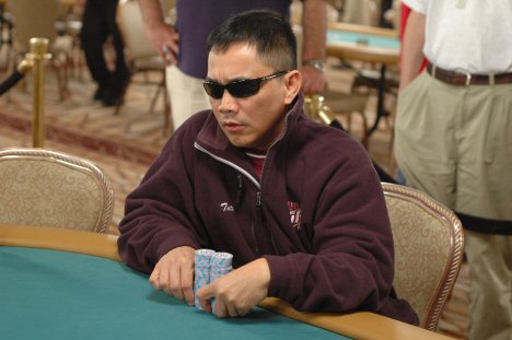 ALfredo "Toto" Leonidas in 2005 World Series of Poker - Rio Las Vegas.